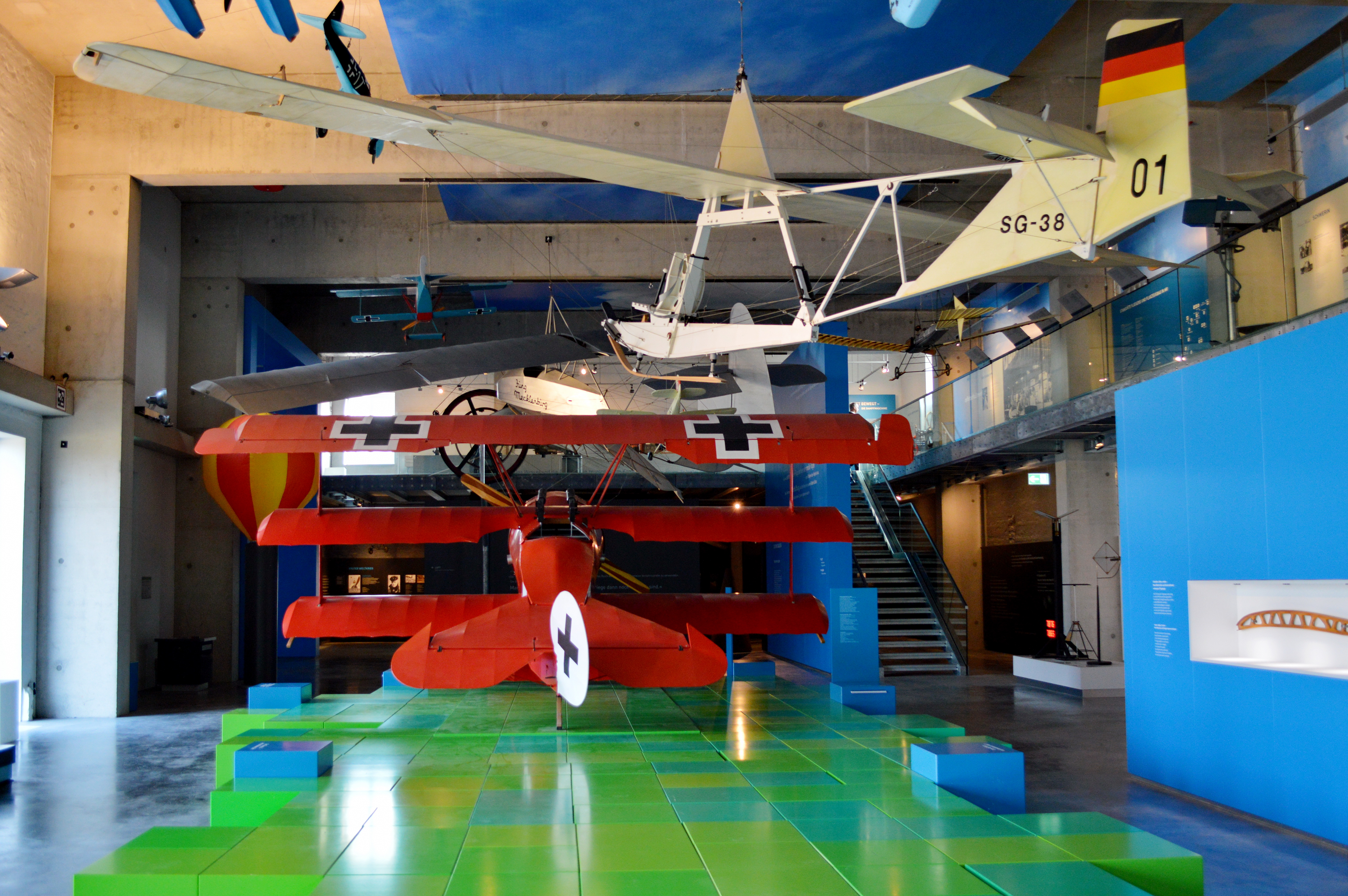 Fokker Dr.I in the air hall of The Mecklenburg-Vorpommern State Museum of Technology